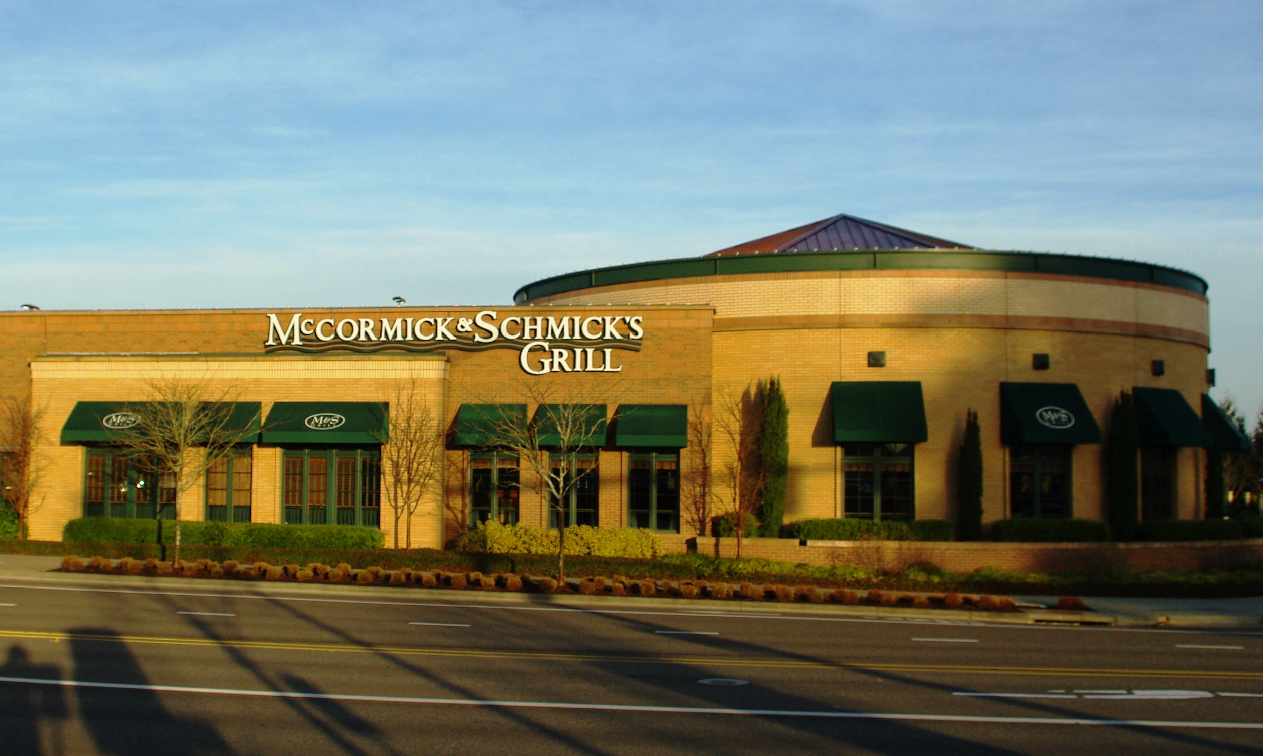 McCormick and Schmicks at Bridgeport Village (Oregon) in Tigard, Oregon.